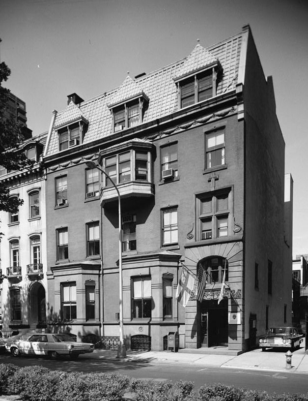 Alexander J. Cassatt house, 202 South 19th St. (Rittenhouse Square West), Philadelphia, Pennsylvania (built for Fairman Rogers c. 1856, expanded for A. J. Cassatt by Frank Furness c. 1888, demolished 1972).